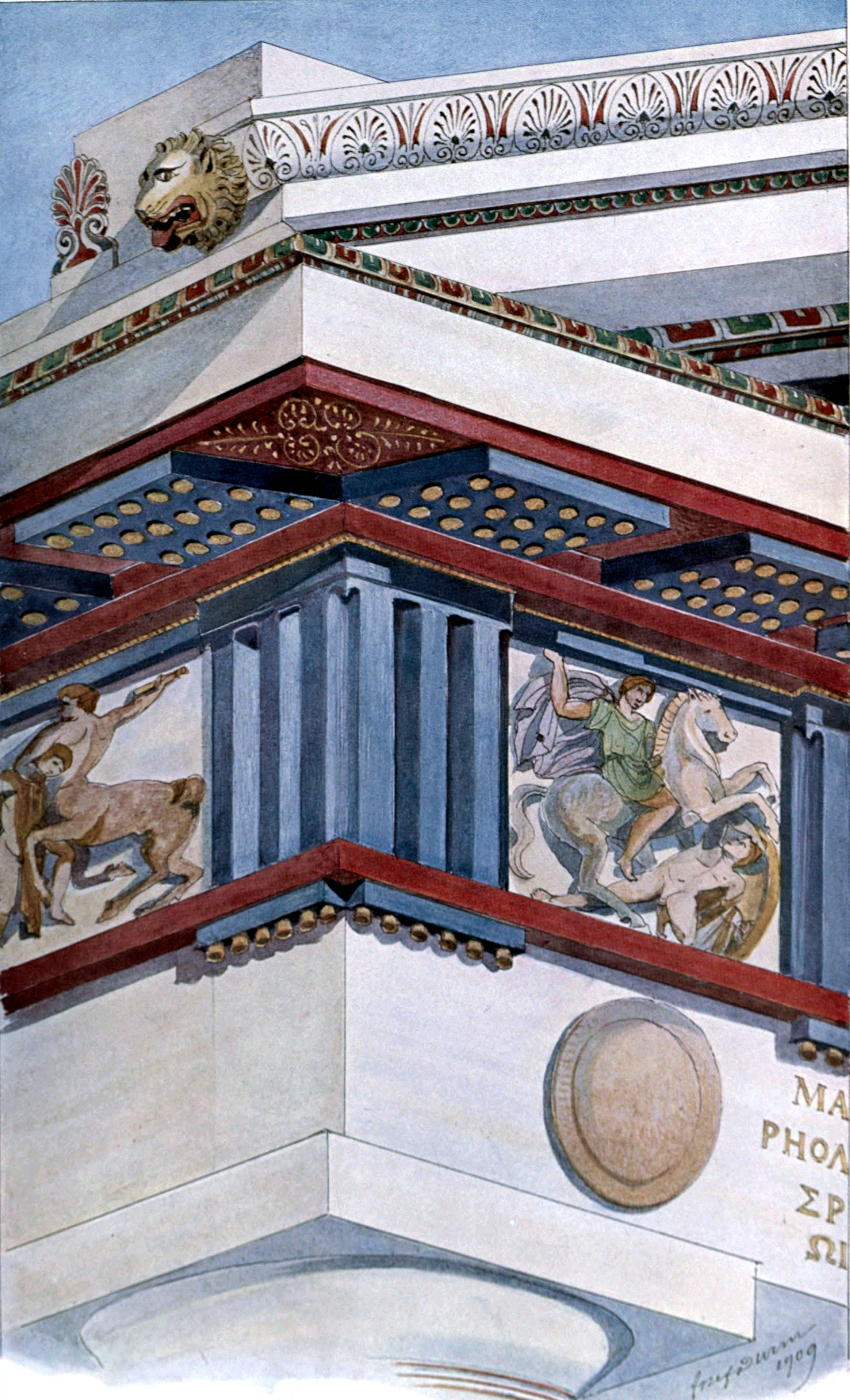 Doric polychromy Die Baunkunst der Griechen